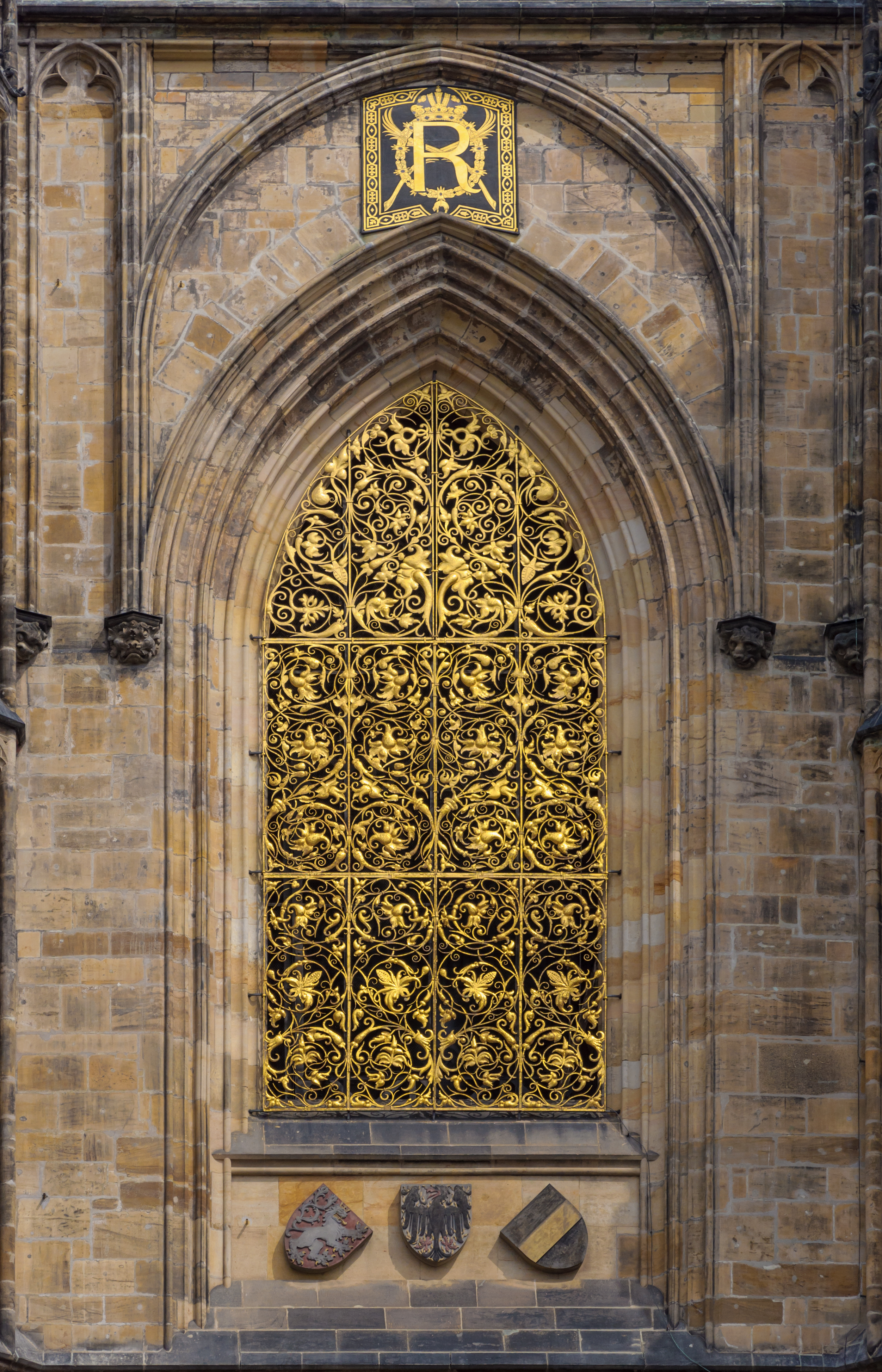 Church window with golden latticework, south facade of Saint Vitus Cathedral, Prague, Czech Republic.